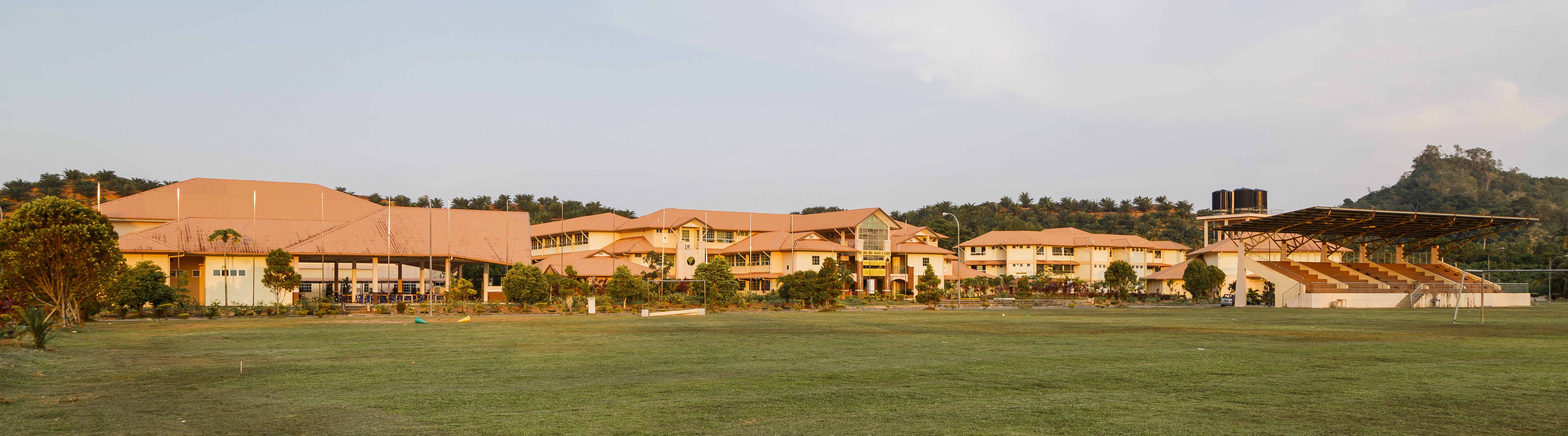 Sikuati, Sabah: SMK Sikuati II, a secondary school in Sabah